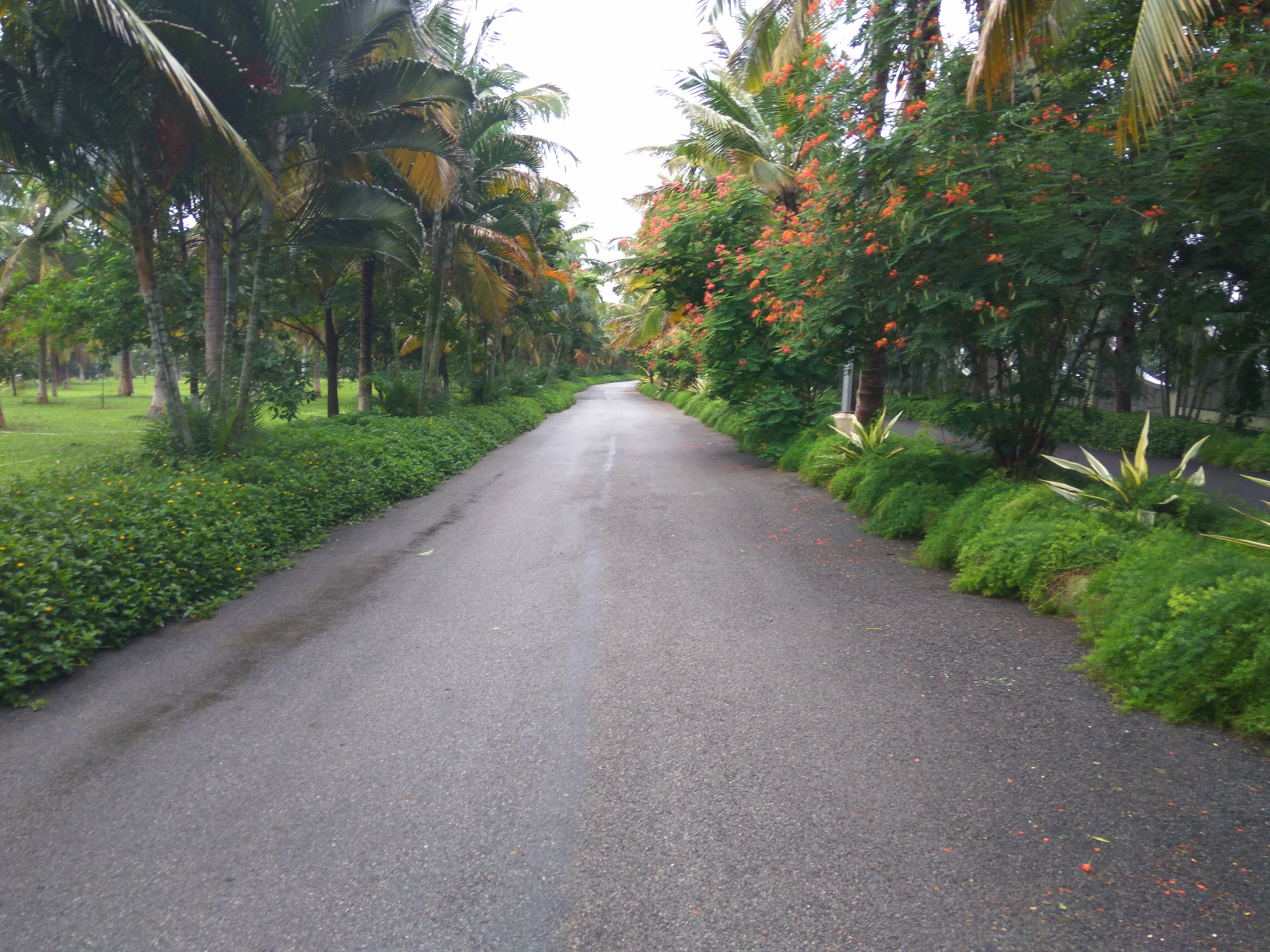 ಈ ಹಳ್ಳಿಯ ಸು೦ದರ ನೋಟ